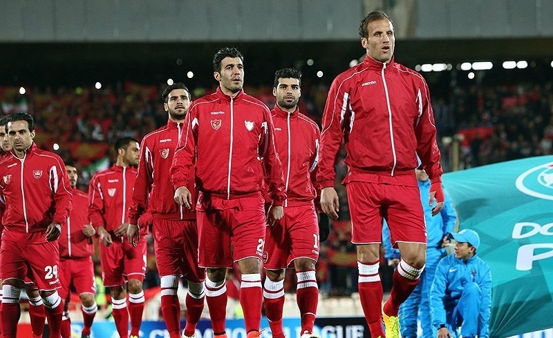 Persepolis Lekhwiya football match in Tehran, 2015 AFC Champions League.